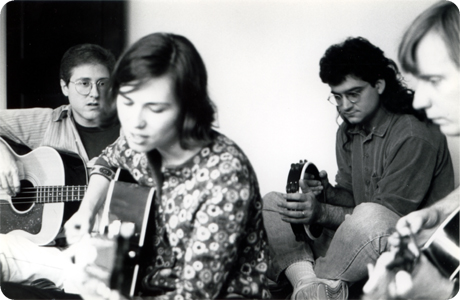 The Innocence Mission 1995